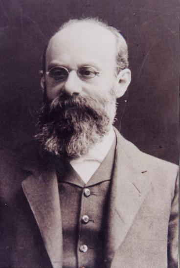 Izidor Brennsohn